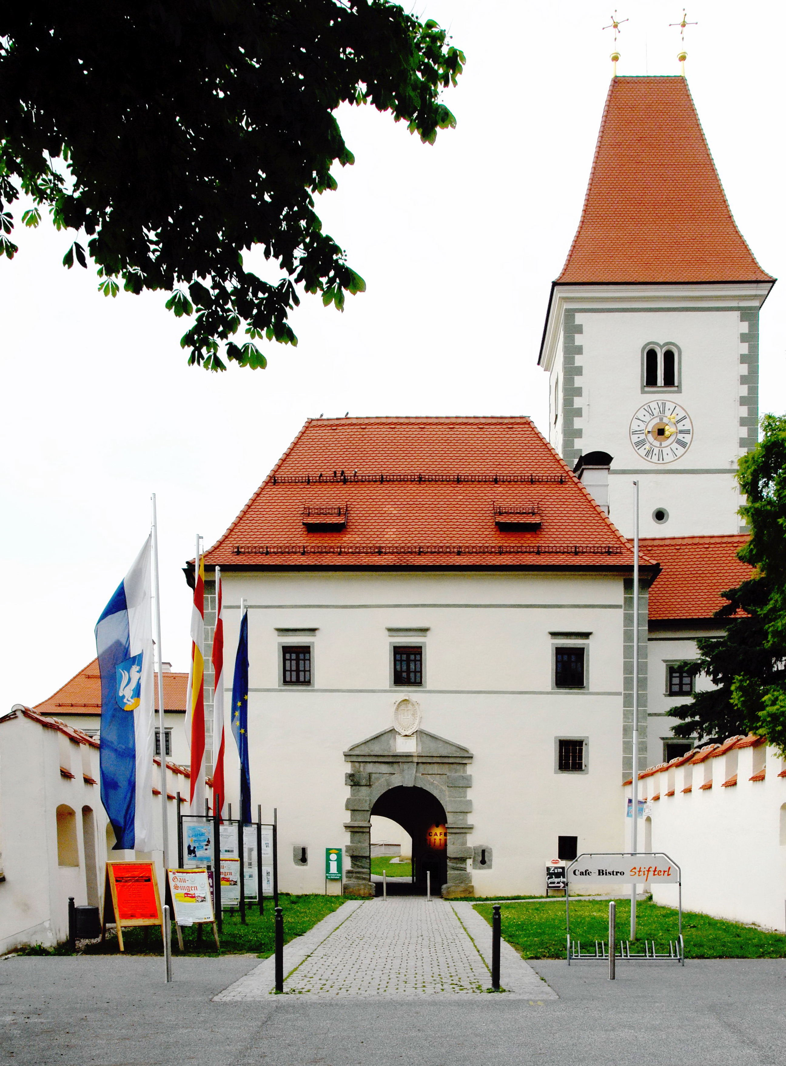 Southern portal of the monastery of Augustinian Canons on Kirchplatz #1, market town Eberndorf, district Völkermarkt, Carinthia, Austria, European Union